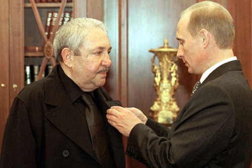 Ernst Iosifovich Neizvestny receives Order of Honor from Vladimir Putin